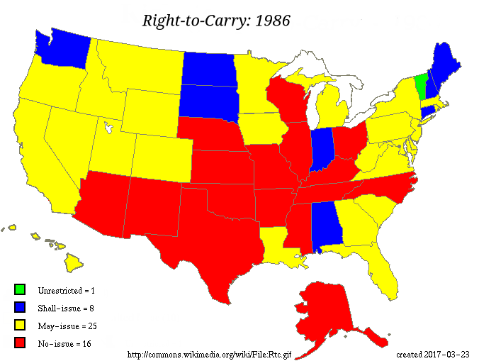 A map of concealed carry laws in the United States in 1986.